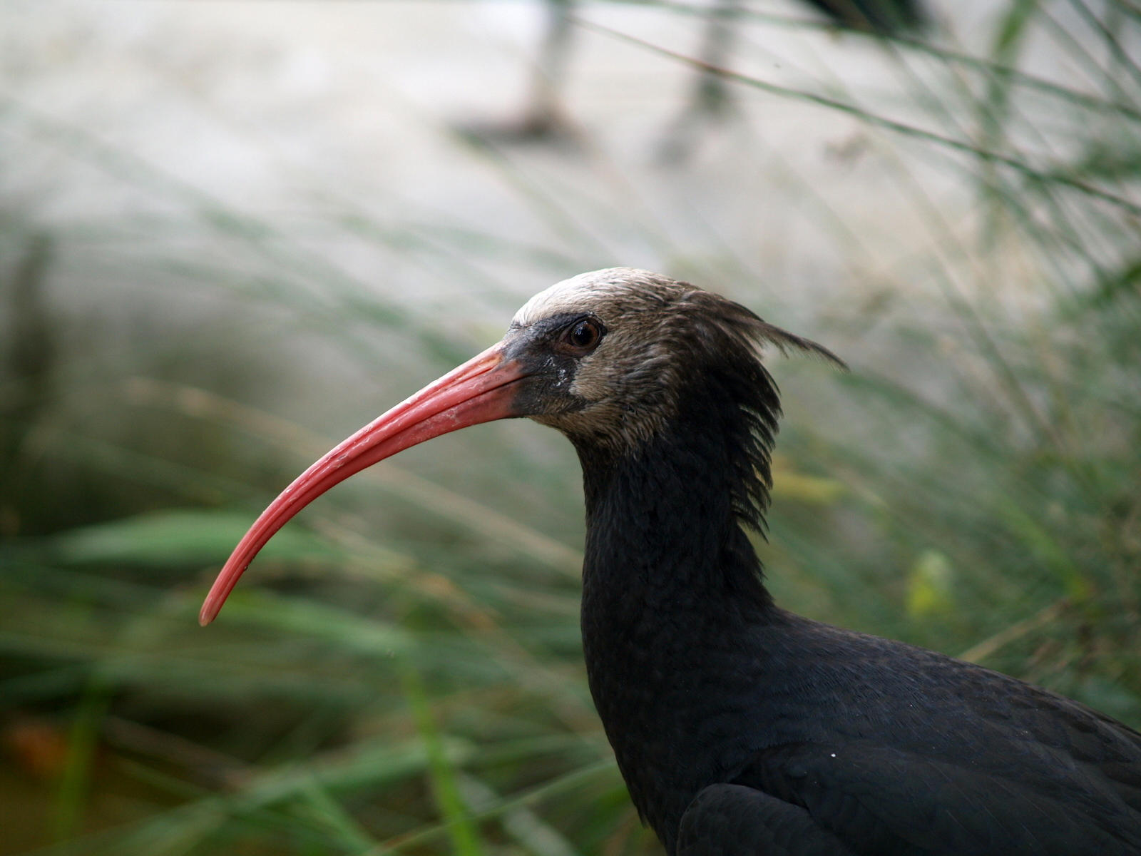 A juvenile Northern Bald Ibis.